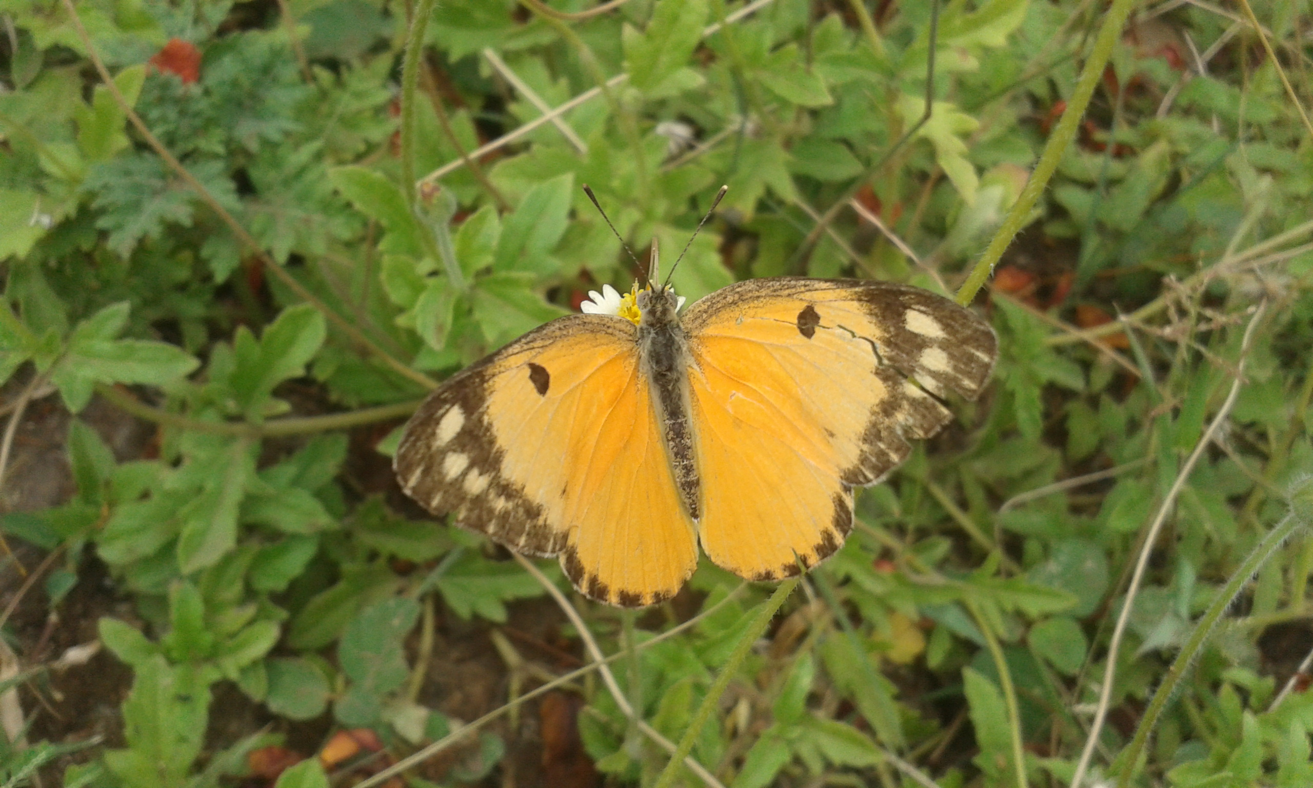 Large Salmon Arab, Male, seen in Vijayawada, Andhra pradesh